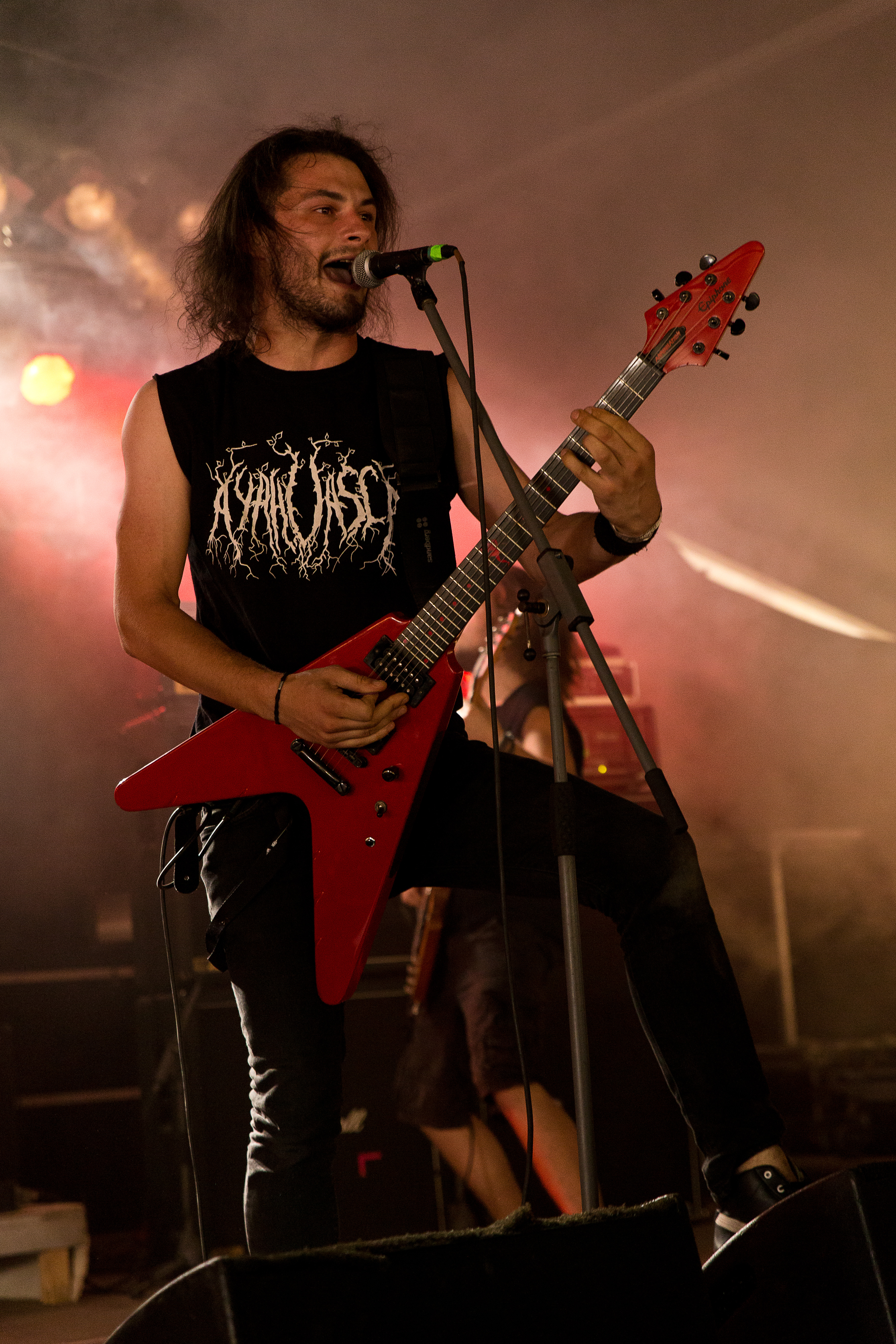 The German thrash metal band Pripjat at the Party.San Open Air 2015 in Obermehler-Schlotheim/Germany.